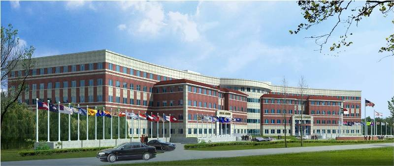 An illustration of the US Forces Command (FORSCOM)and US Army Reserve Command (USARC) HQ at Ft Bragg NC